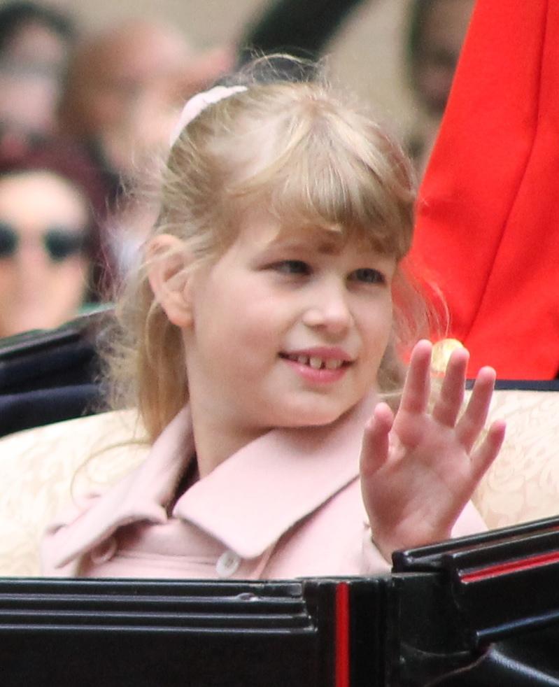 The Countess of Wessex and her daughter Lady Louise riding in a carriage at Trooping the Colour, June 2013